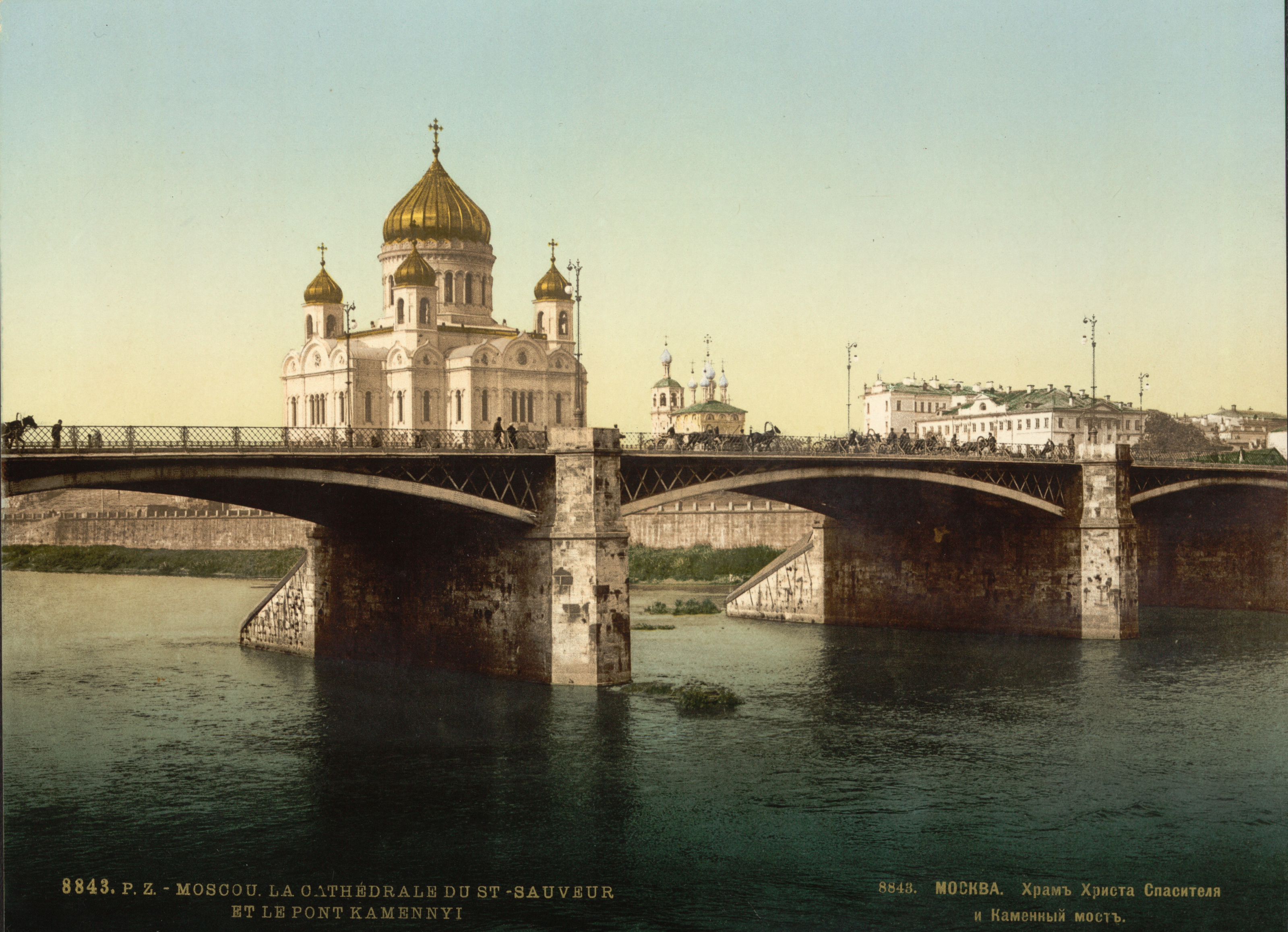 Cathedral of Christ the Saviour and Big Stone Bridge in Moscow (1905). Public domain from the Library of Congress website [1].